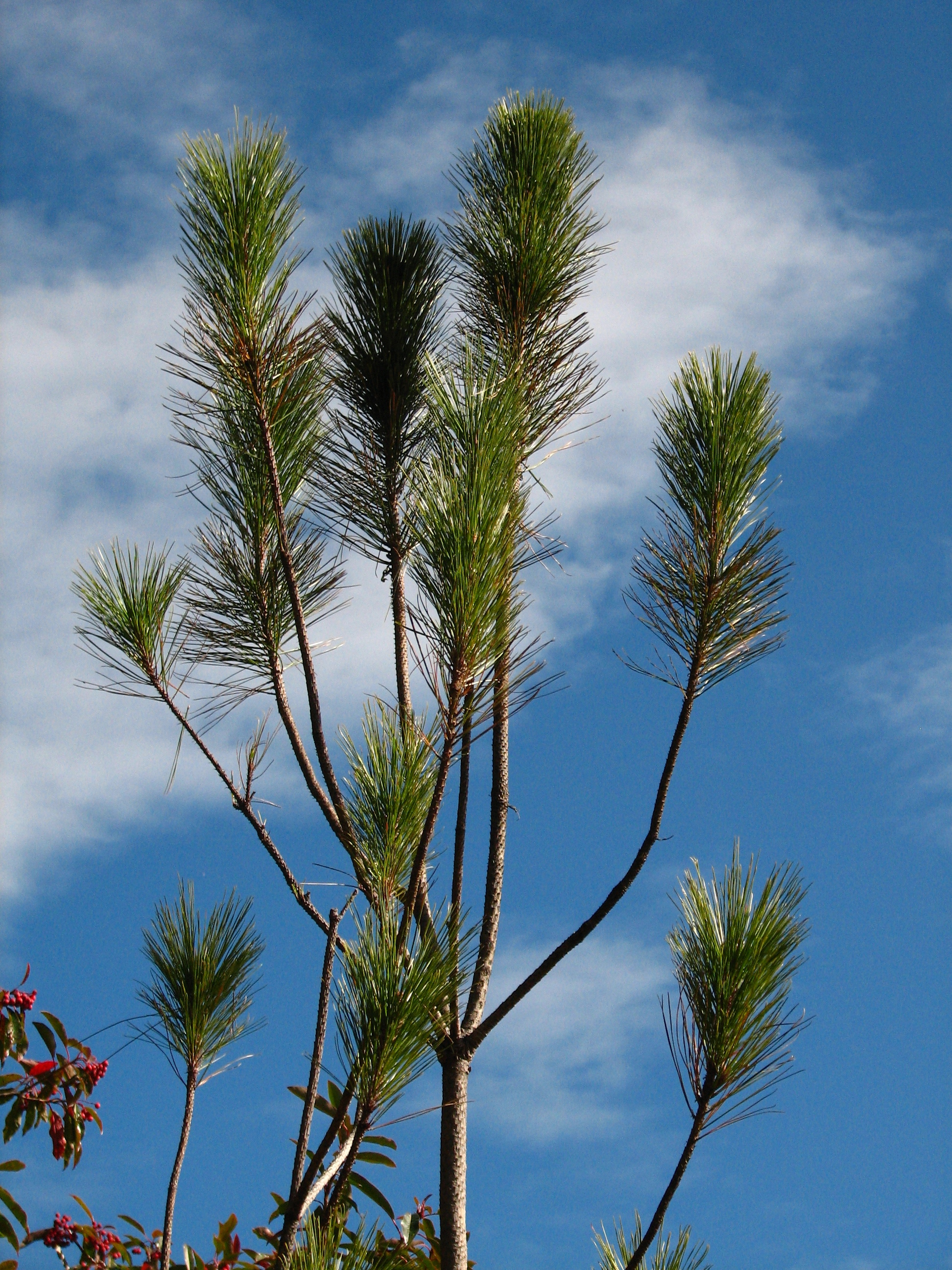 Pinus taiwanensis foliage, Alishan Township, Taiwan, 23°29'54"N 120°46'24"E, 1900 m altitude